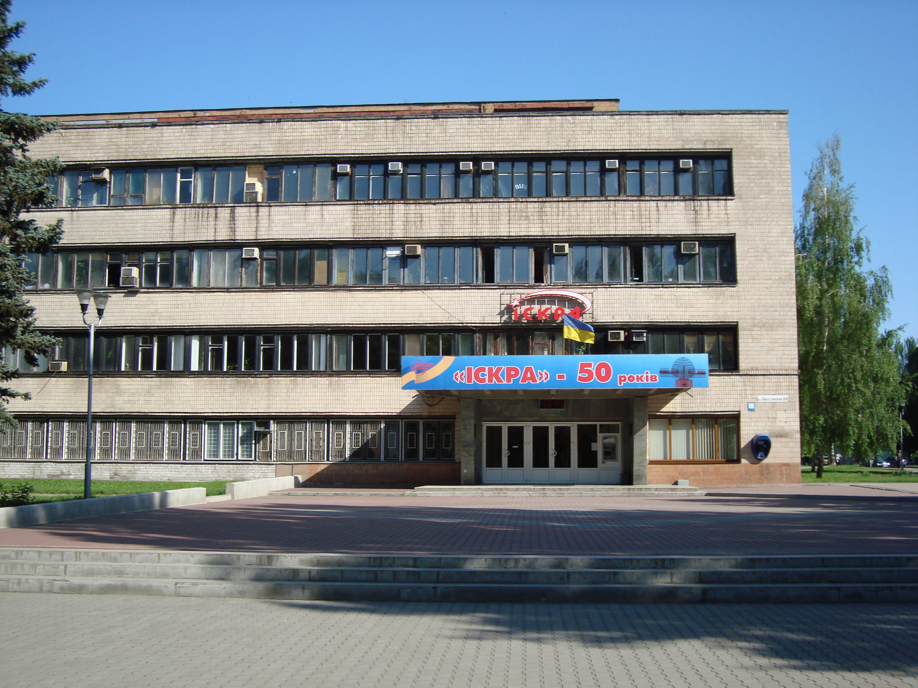 State Enterprise «Scientific and Production Complex "Iskra"», Zaporizhia (Ukraine)